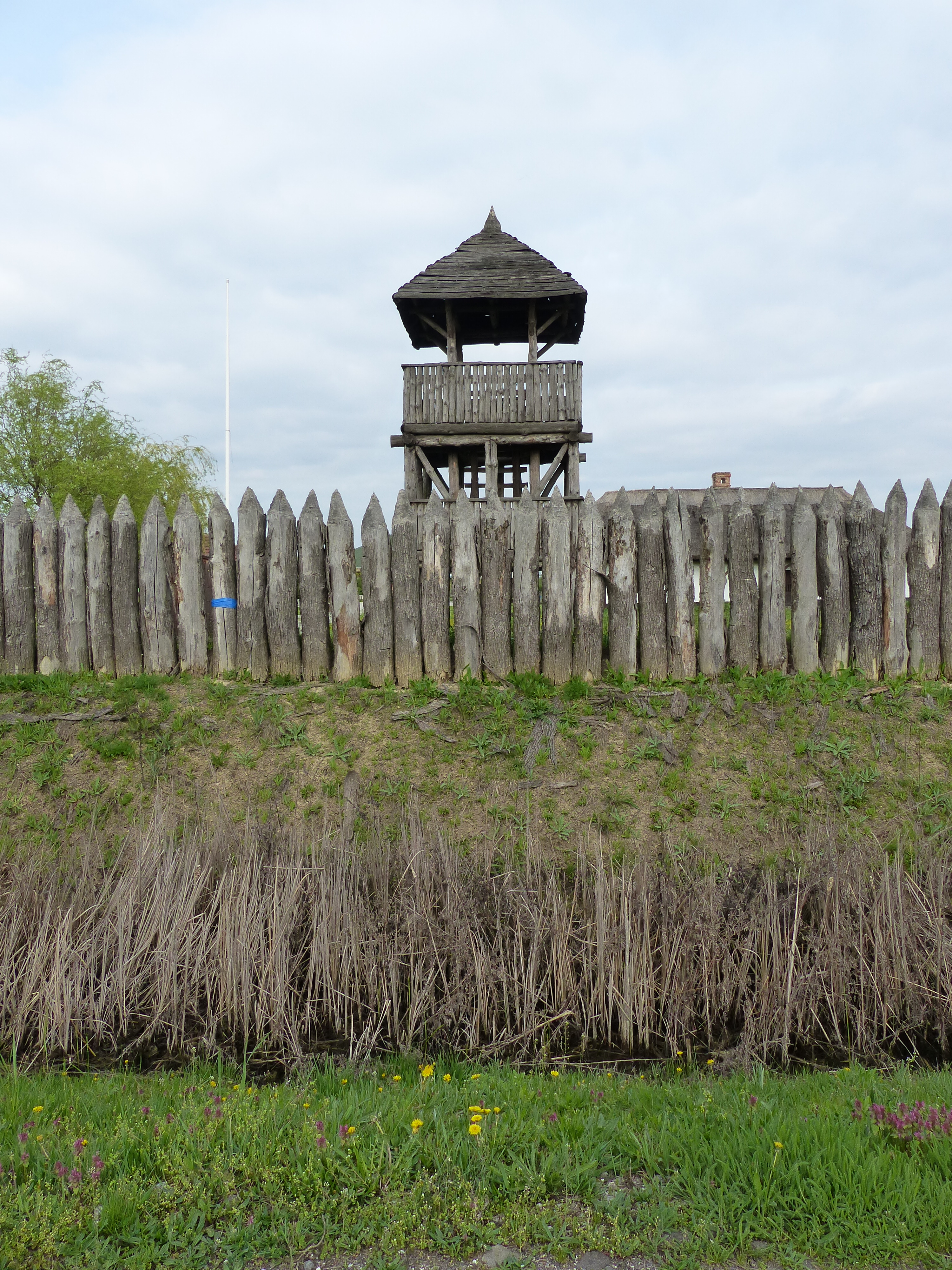 Avarárok (Ördög árka, Avarárok, Ördögárok, Ördögborozda, Csörsz-árok, Rasponné útja, Ördögszántás, Kakasborázda). M3 Archeopark, Polgár, Hungary. Defence line, built by the Scythians around 339 BC. Reconstruction. This line defended the Scythians living in the Great Hungarian Plain - on their Northern and Eastern borders - from the German invasion.